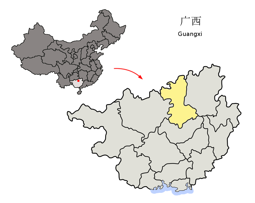 Location of Liuzhou Prefecture (yellow) within Guangxi Autonomous Region of China Map drawn in november 2007 using various sources, mainly : Guangxi Autonomous Region administrative regions GIS data: 1:1M, County level, 1990 Guangxi Counties map from